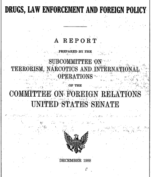 Cover of the Kerry Committee report, the final report of an investigation by the Senate Foreign Relations Committee's Subcommittee on Terrorism, Narcotics, and International Operations into the possible role of the Nicaraguan Contras in drug trafficking.